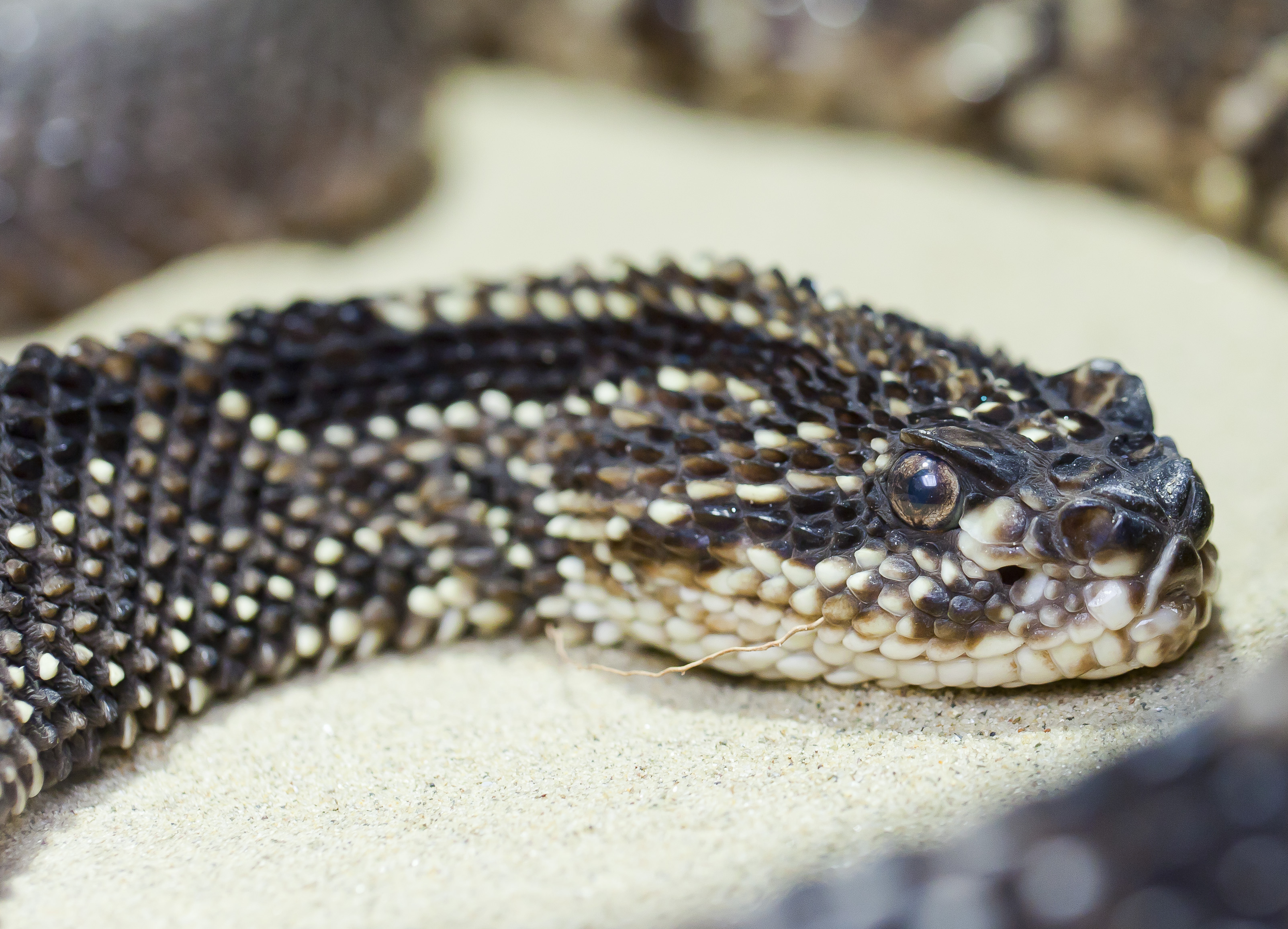 South American rattlesnake (Crotalus durissus), Tierpark Hellabrunn, Munich, Germany